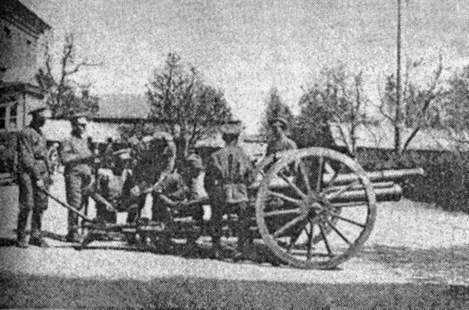 The troops of Ukrainian People's Republic